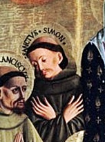 Seliger Simon von Collazzone, um 1450